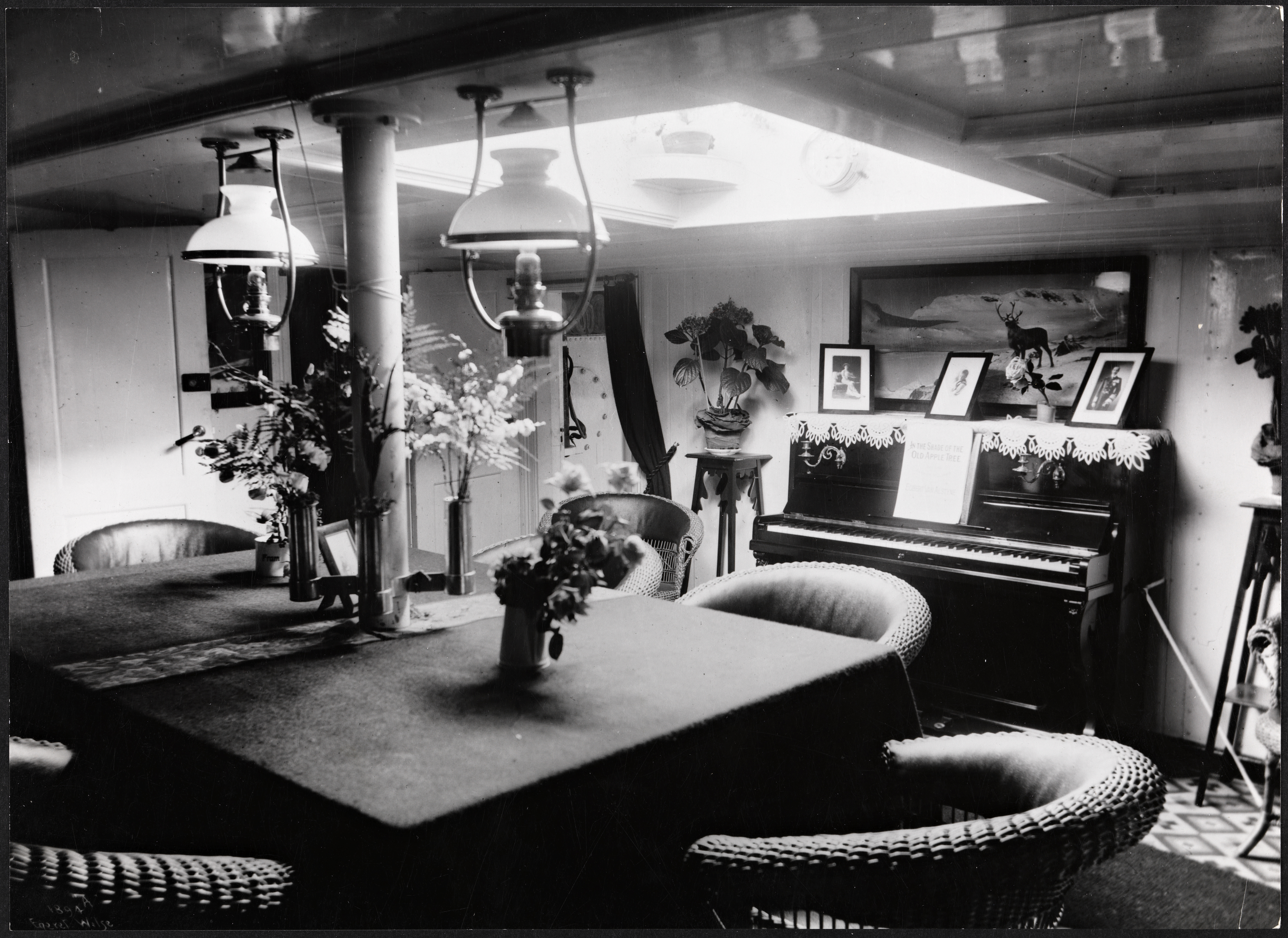 Beskrivelse / Description: Det er gjort forandringer før Roald Amundsens Sydpolekspedisjon i 1910-12. Dato / Date: etter 1912 Sted / Place: Oslo, Bygdøy Fotograf / Photographer: Anders Beer Wilse (1865-1949) Digital kopi av original / Digital copy of original: papirpositiv Eier / Owner Institution: Nasjonalbiblioteket / National Library of Norway Lenke / Link: Bildesignatur / Image Number: bldsa_3c267